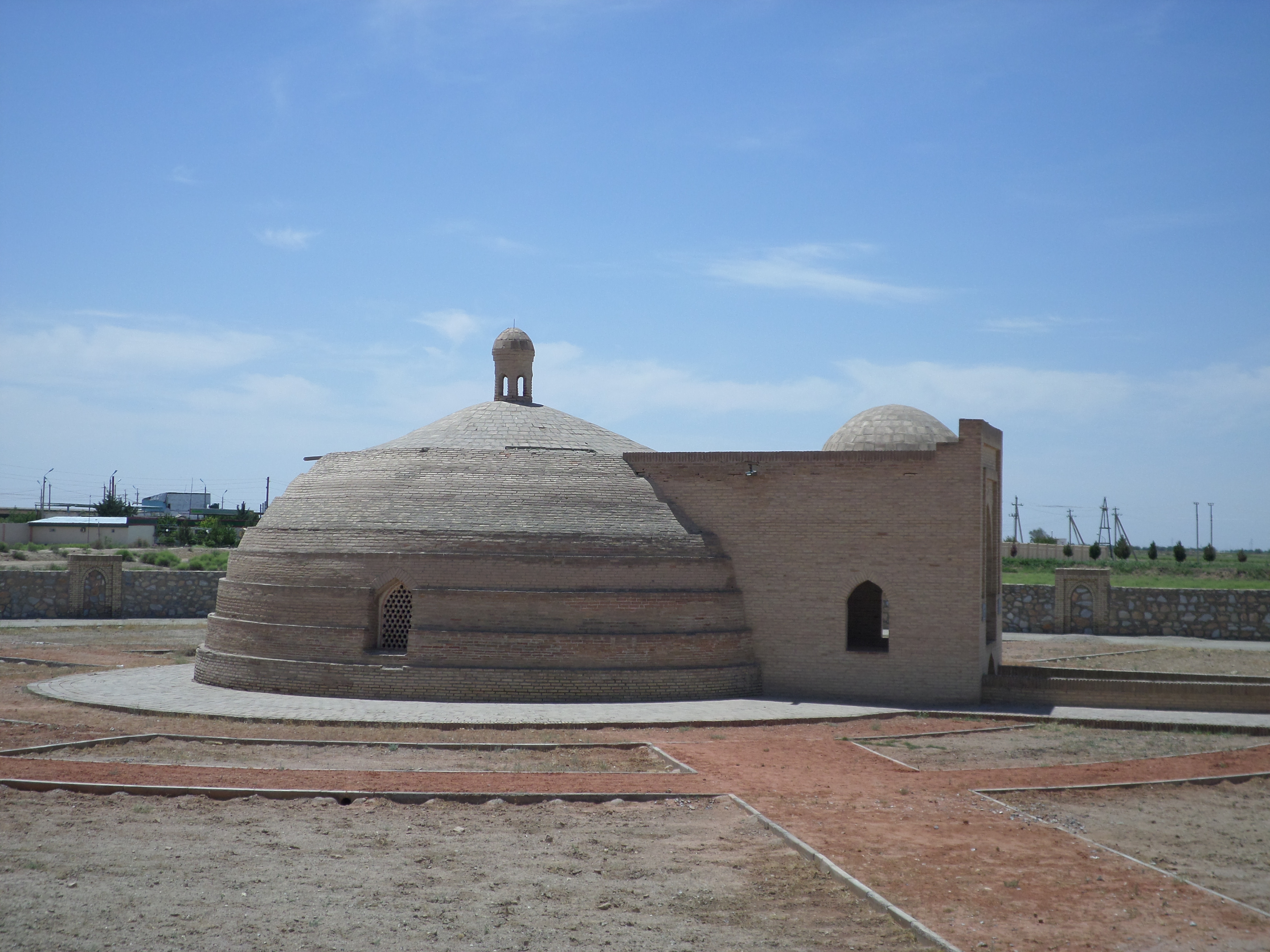 Malik sardoba